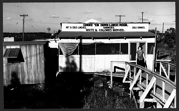 20) Belle Glade (vicinity), Florida. January 1939. Marion Post Wolcott, photographer. "A lunch room." [Sign: "White & Colored Served."] Location: E-9064 Reproduction Number: LC-USF34-50500-D